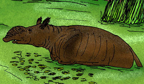 the tapir-like Cadurcodon. (C) Stanton F. Fink